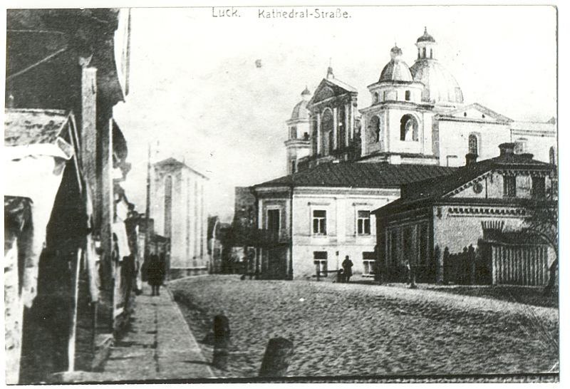 Cathedral street in Lutsk